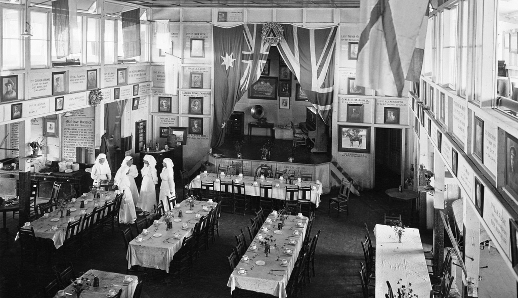 Main hall in Cheer-up hut.